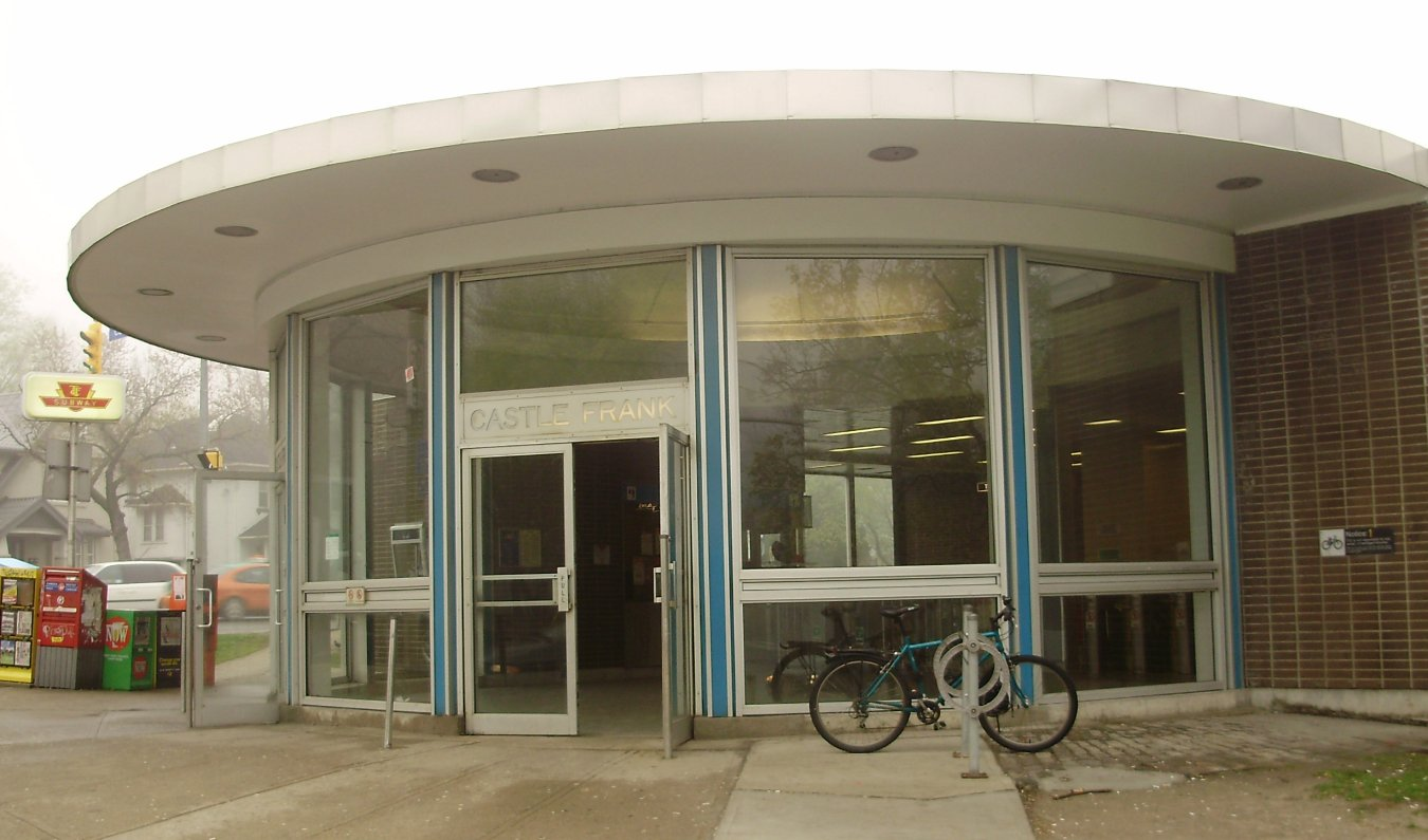 Aboveground station building of the TTC's Castle Frank Station.